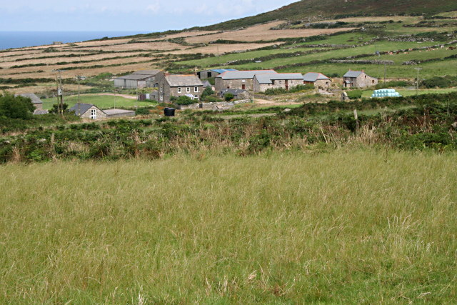 Trevowhan Looking down onto the farm at Trevowhan from the road up to Carn Downs.